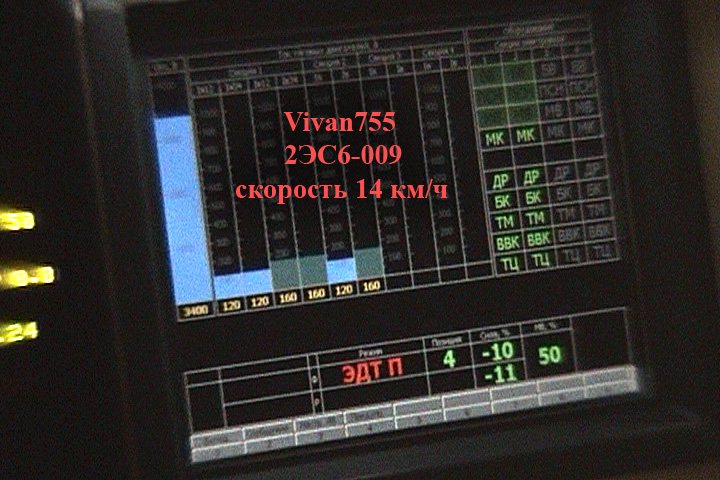 Display of 2ES6-009 locomotive, electrodynamic braking, 14 km/h